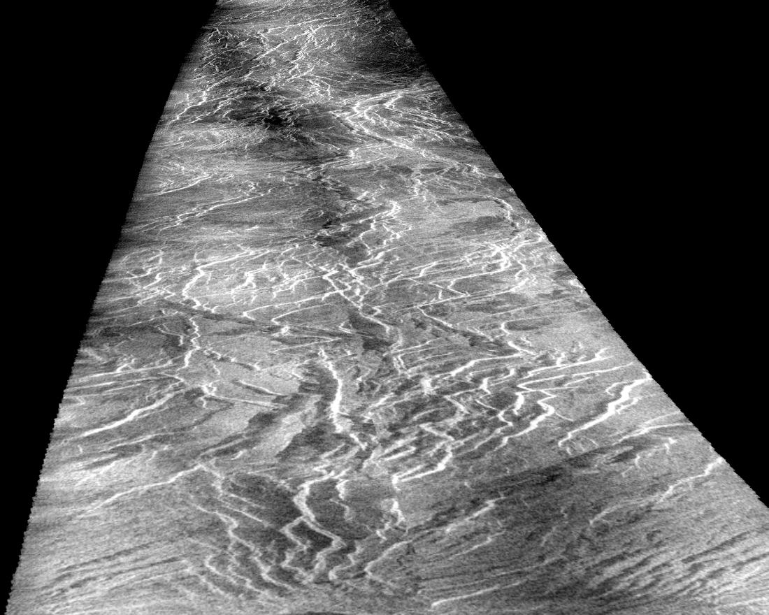 Alpha Regio and Phoebe Regio, as imaged by the Magellan spacecraft.